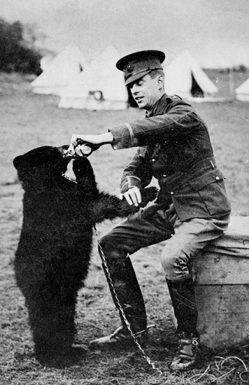 Harry Colebourne and Winnie